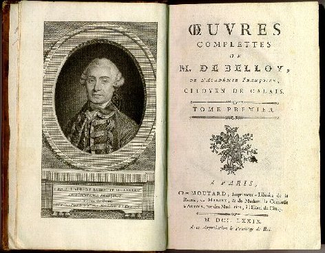 Portrait of French playwright and member of the Académie française Pierre-Laurent de Belloy, né Pierre-Laurent Buirette, a.k.a. Dormont de Belloy (1727-1775), on the title page of his Complete Works first published in 1779.